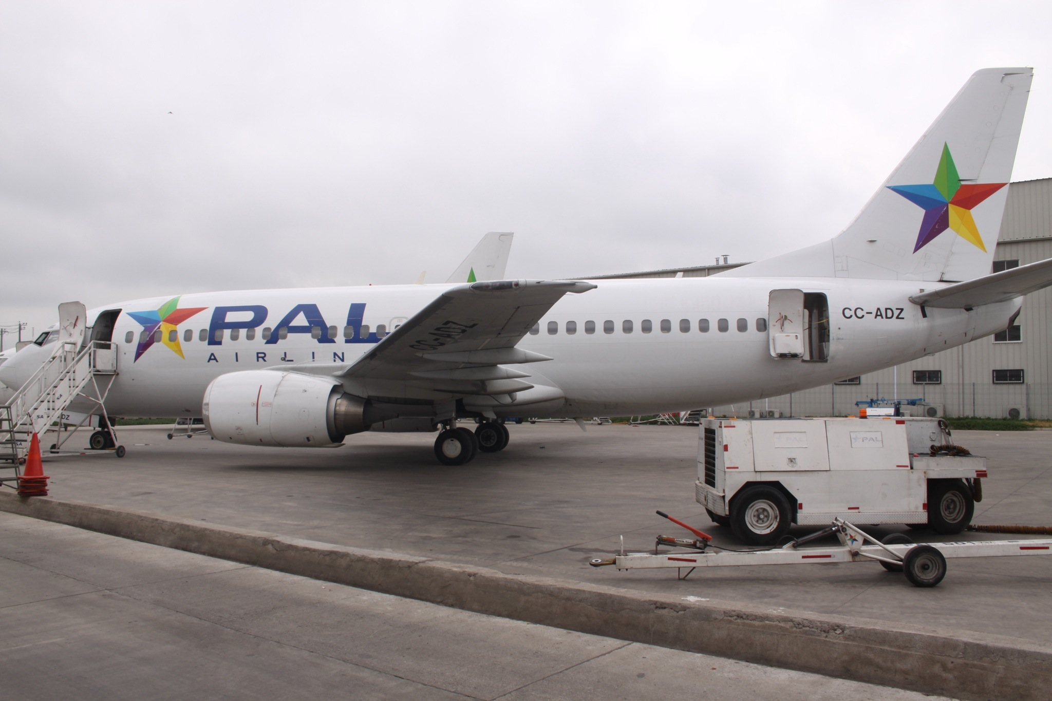 At Santiago